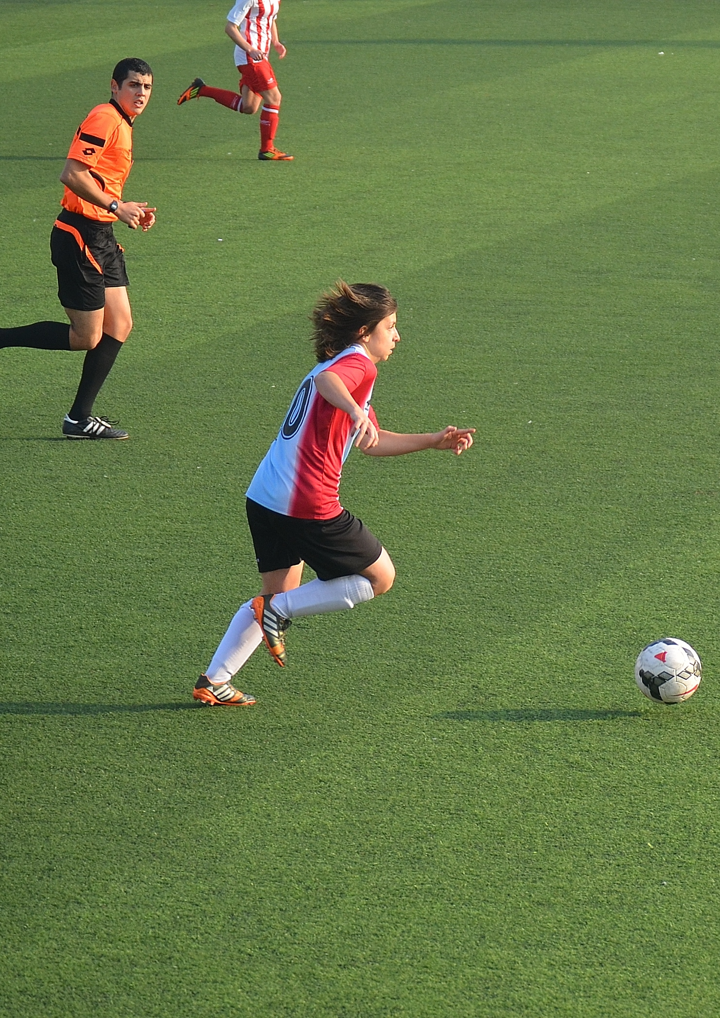 Fatoş Yıldırım playing for Trabzon İdmanocağı (women) in the away match against Ataşehir Belediyespor (2014-15 season)